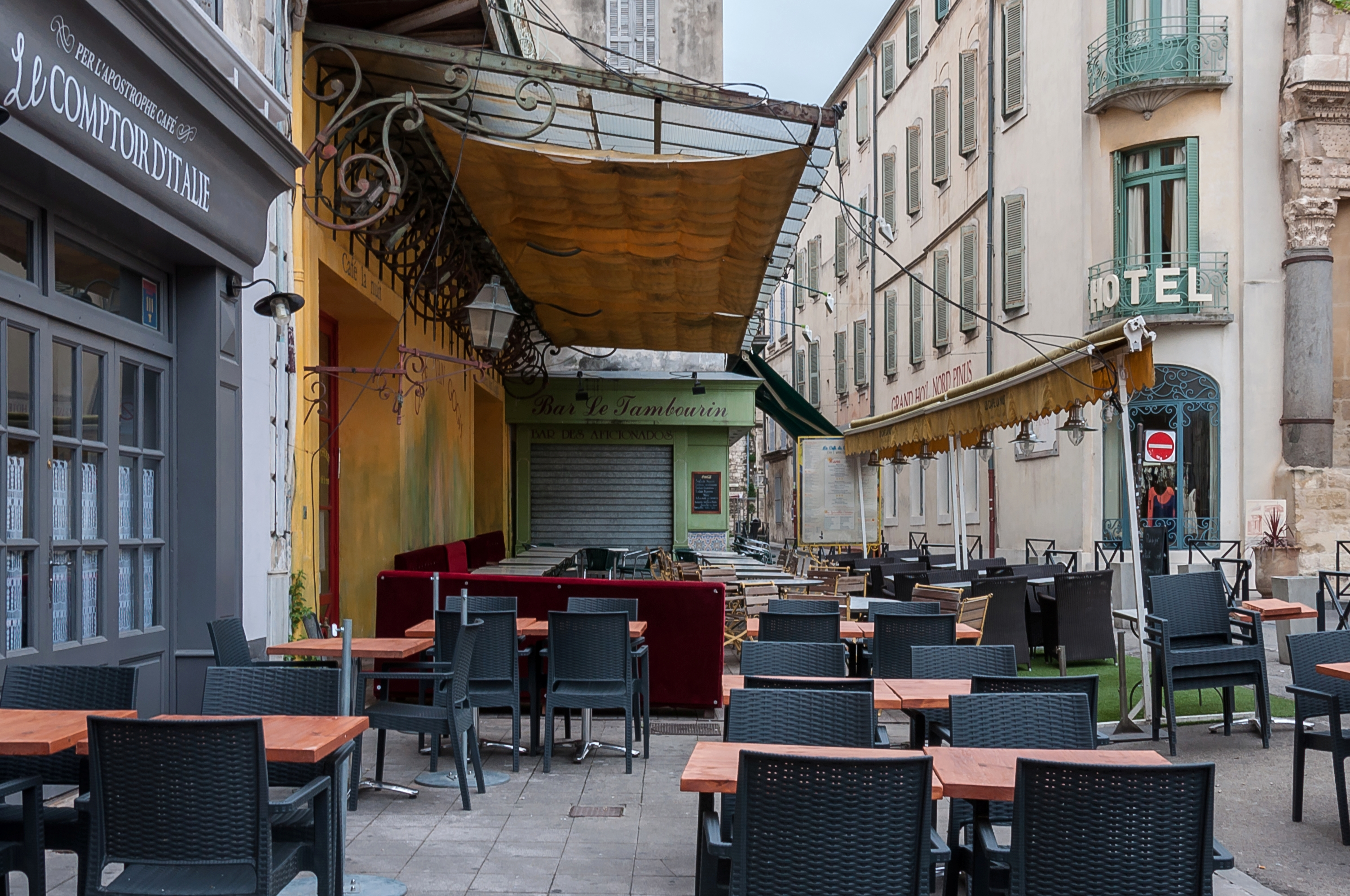 The café in Place du Forum in Arles was painted in September 1888 by Vincent van Gogh as night scene.